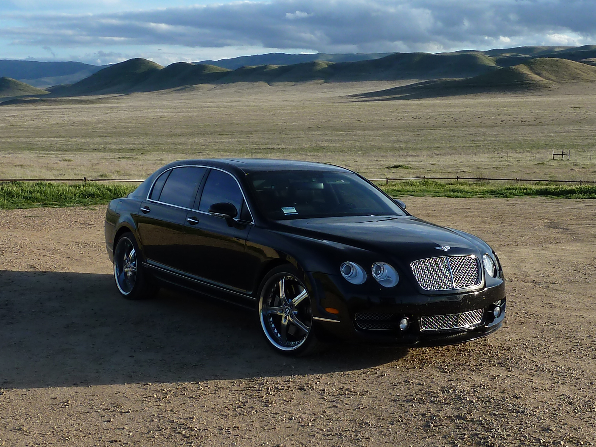 2006 Mansory Bentley Continental Flying Spur at the Carrizo Plain National Monument approximately 80 miles (128.75 kilometers) west of Bakersfield, California, USA.